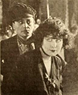 Still from the American drama film L'apache (1919) with Robert Elliott and Dorothy Dalton, on page 1080 of the August 2, 1919 Motion Picture News.